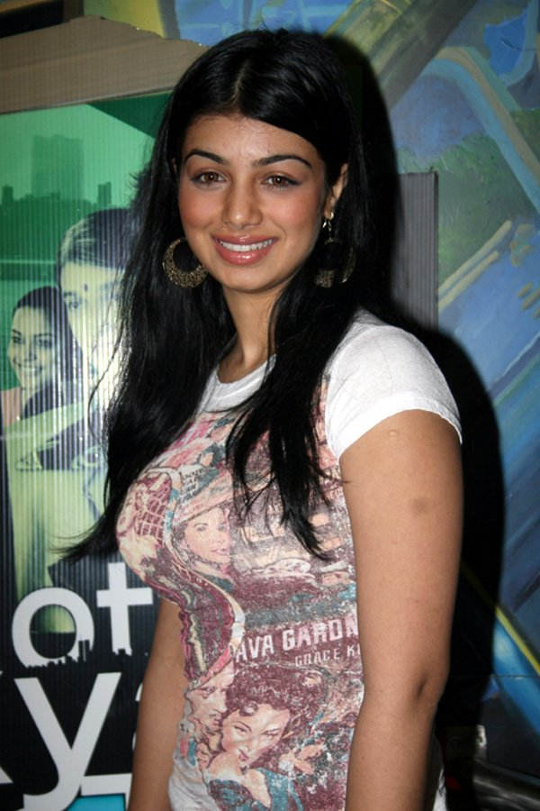 Ayesha Takia at a photo shoot from the article "Vivacious actress Ayesha Takia not getting any beauty sleep"